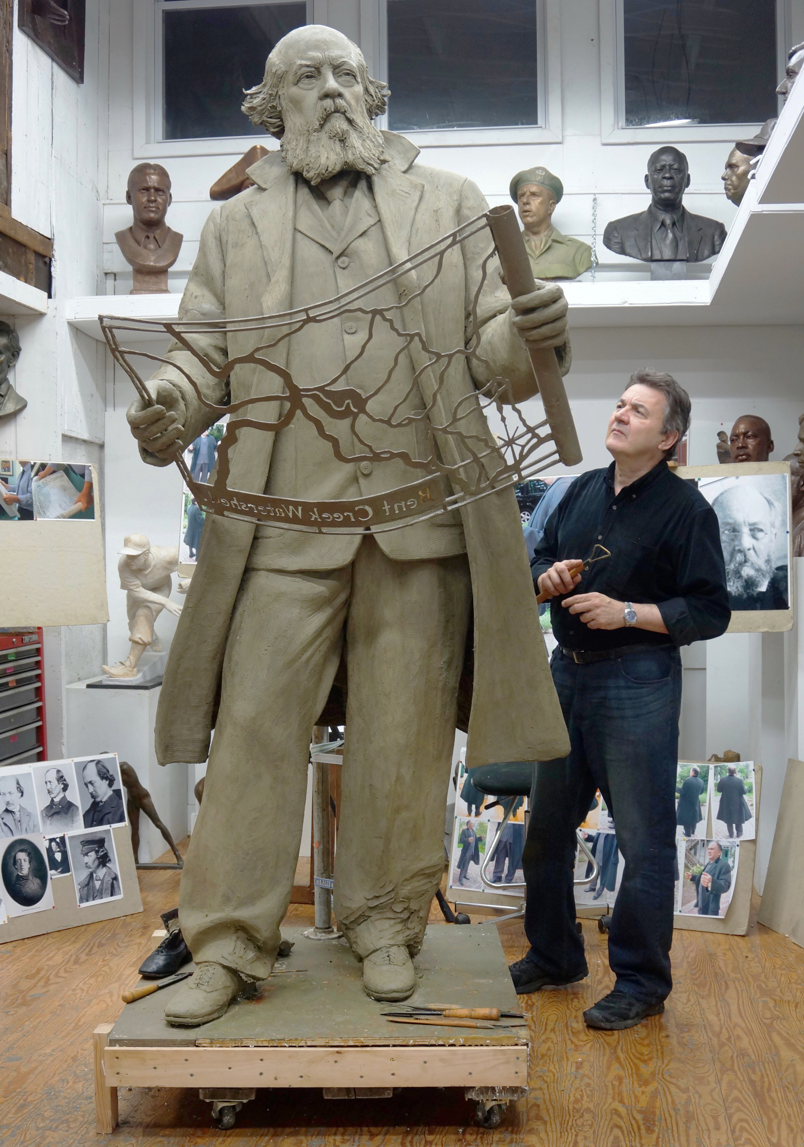 Zenos Frudakis sculpting Frederick Law Olmsted.